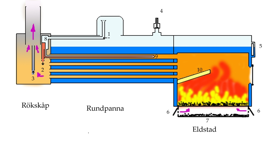 Sketch of an Steam boiler for an engine.